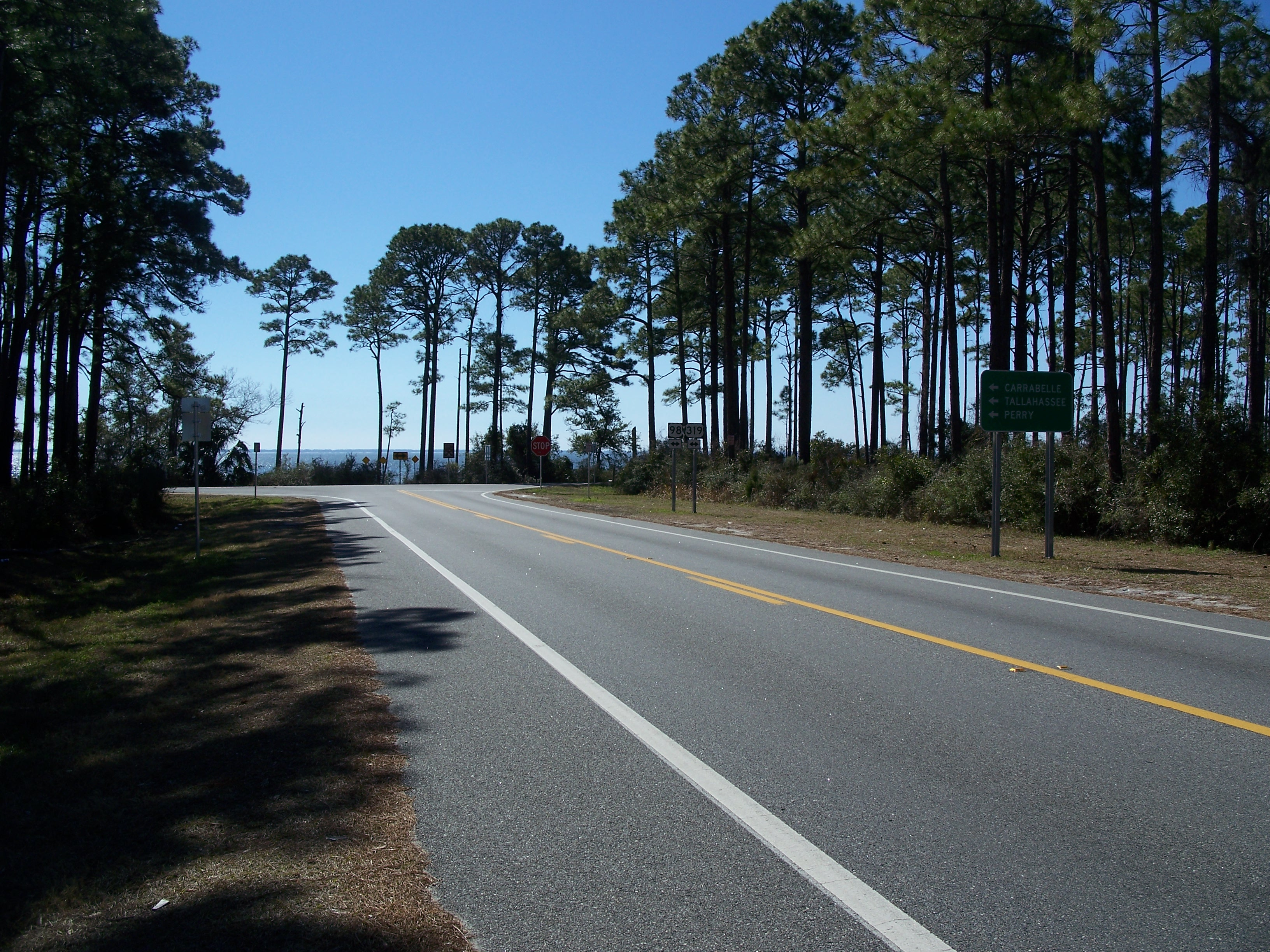 Franklin County, Florida: SR 65, looking south towards the US 98/319 intersection